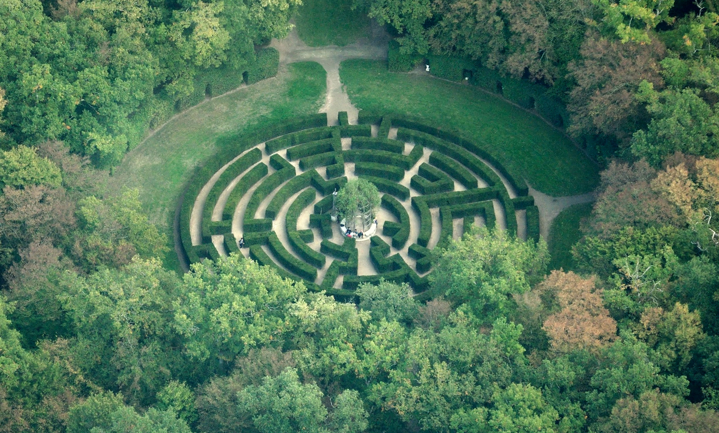 Aerial view of the garden maze at Chenonceau castle, commune of Chenonceaux (Indre-et-Loire department, France). Nikon DX60 f=105mm f/4.8 at 1/320s ISO 400. Processed using Nikon ViewNX 1.3.0 and GIMP 2.6.6.